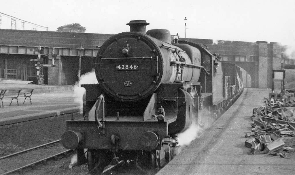 A Down fast freight thunders through Hendon Station. View southward, towards St Pancras; ex-Midland London St Pancras - Leicester - Sheffield trunk line. The train is on the Down Fast, coming from under the A504 Station Road bridge. It is headed by Hughes/Fowler 5P4F 2-6-0 No. 42846 of Burton-on-Trent (17B) and may be hurrying home